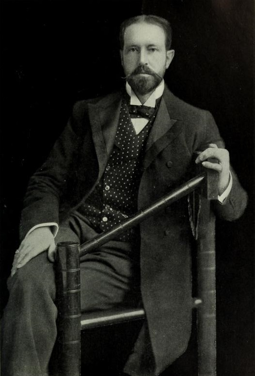 Portrait of Sir Henry Norman, 1st Baronet